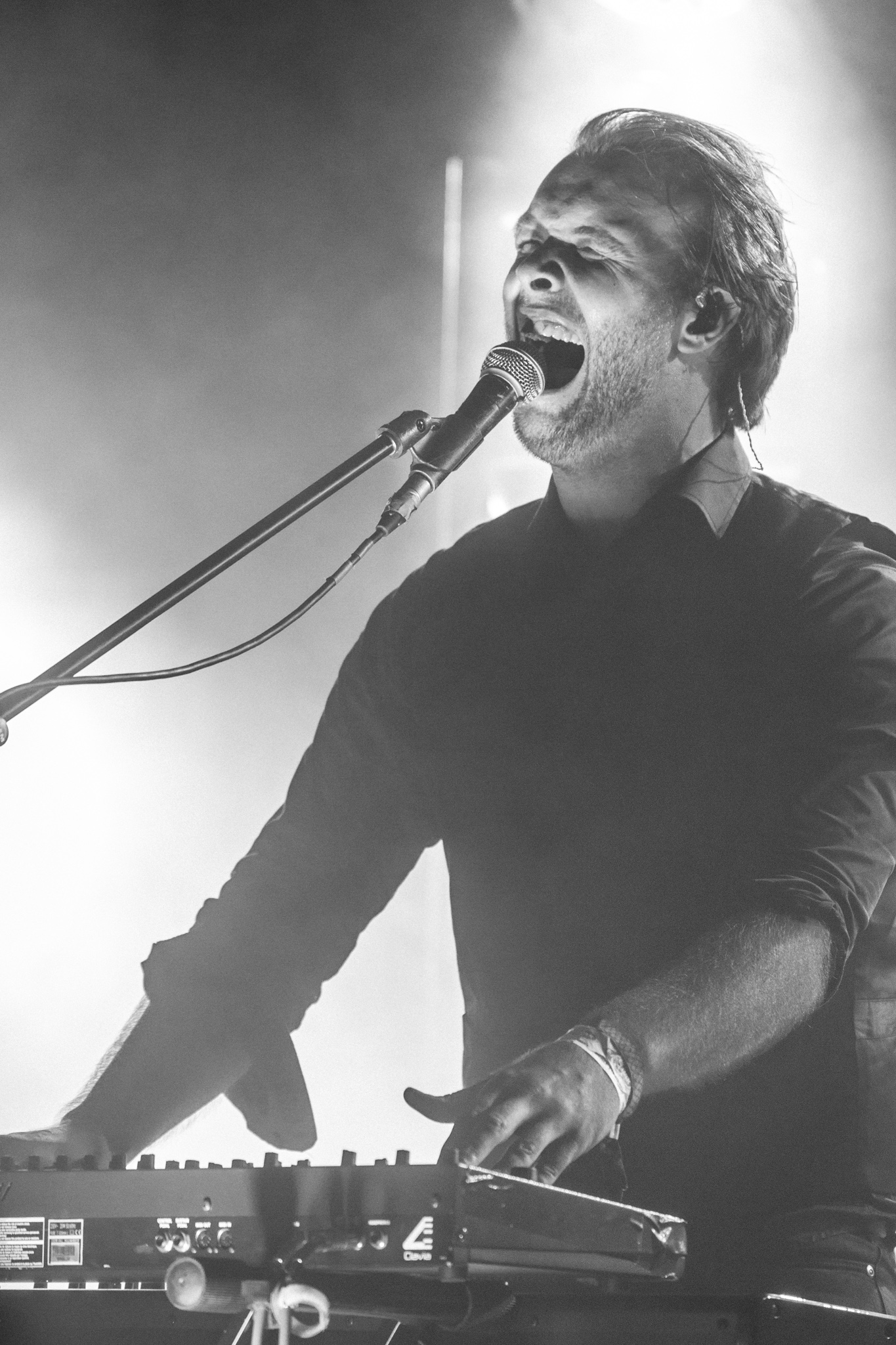 Leprous performing at the Euroblast Festival in Cologne, October 2014